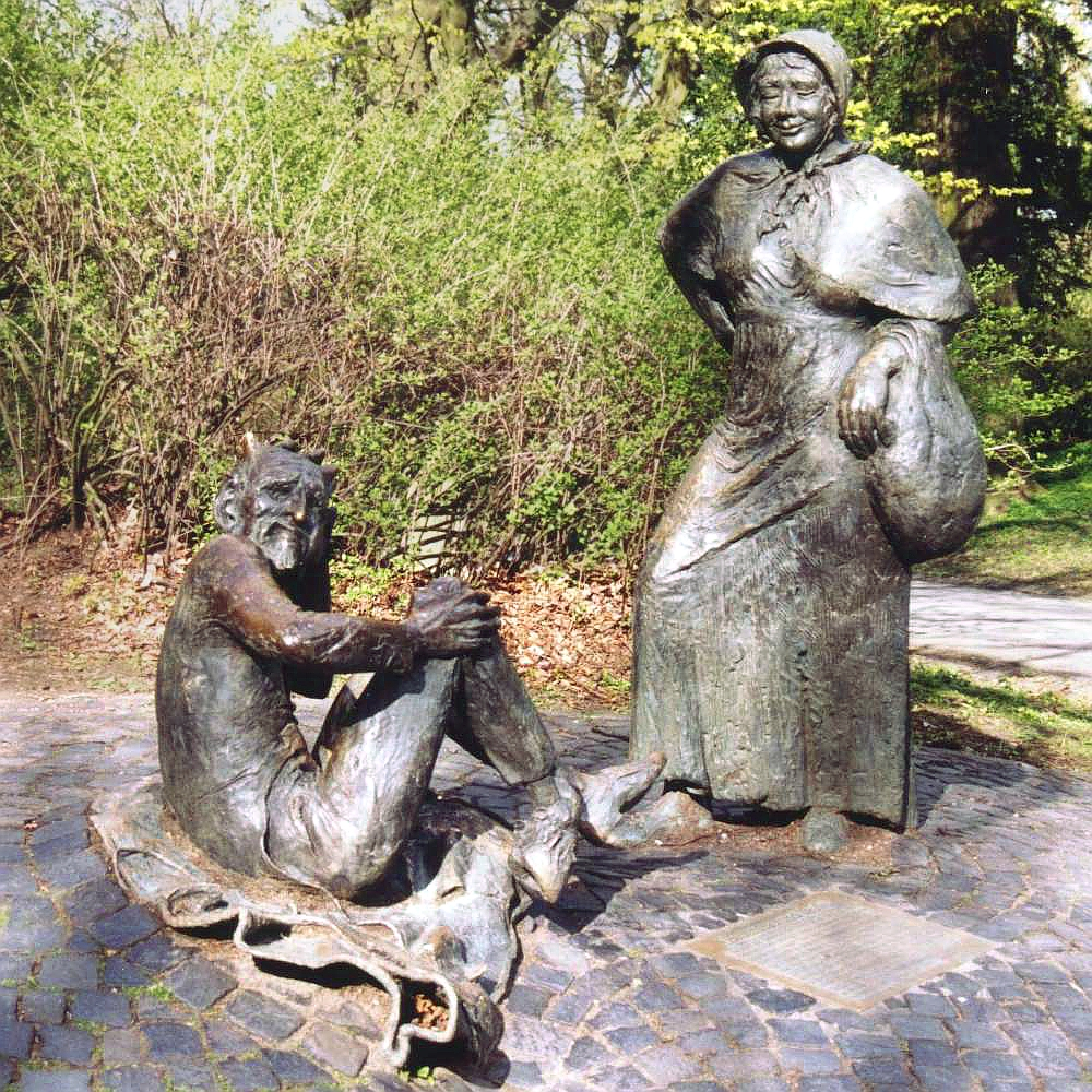 Sculpture of the Devil and a market woman at the Lousberg in Aachen, Germany. The sculpture refers to a popular local legend on the building of the cathedral of Aachen, which was only made possible due to a pact with the devil. The devil was cheated and tried to sink the city in sand. Cheated again by the market woman he gives up his plan, and the sand becomes the Lousberg, a hill next to the city.